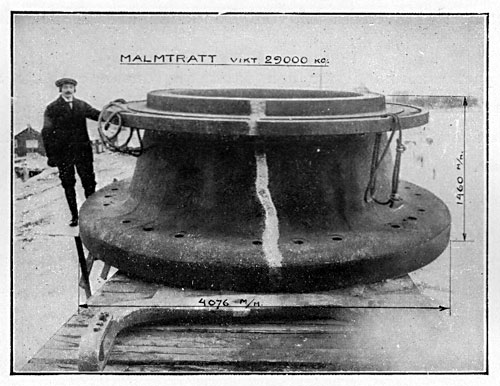 Object that was repaired using Esab welding technique